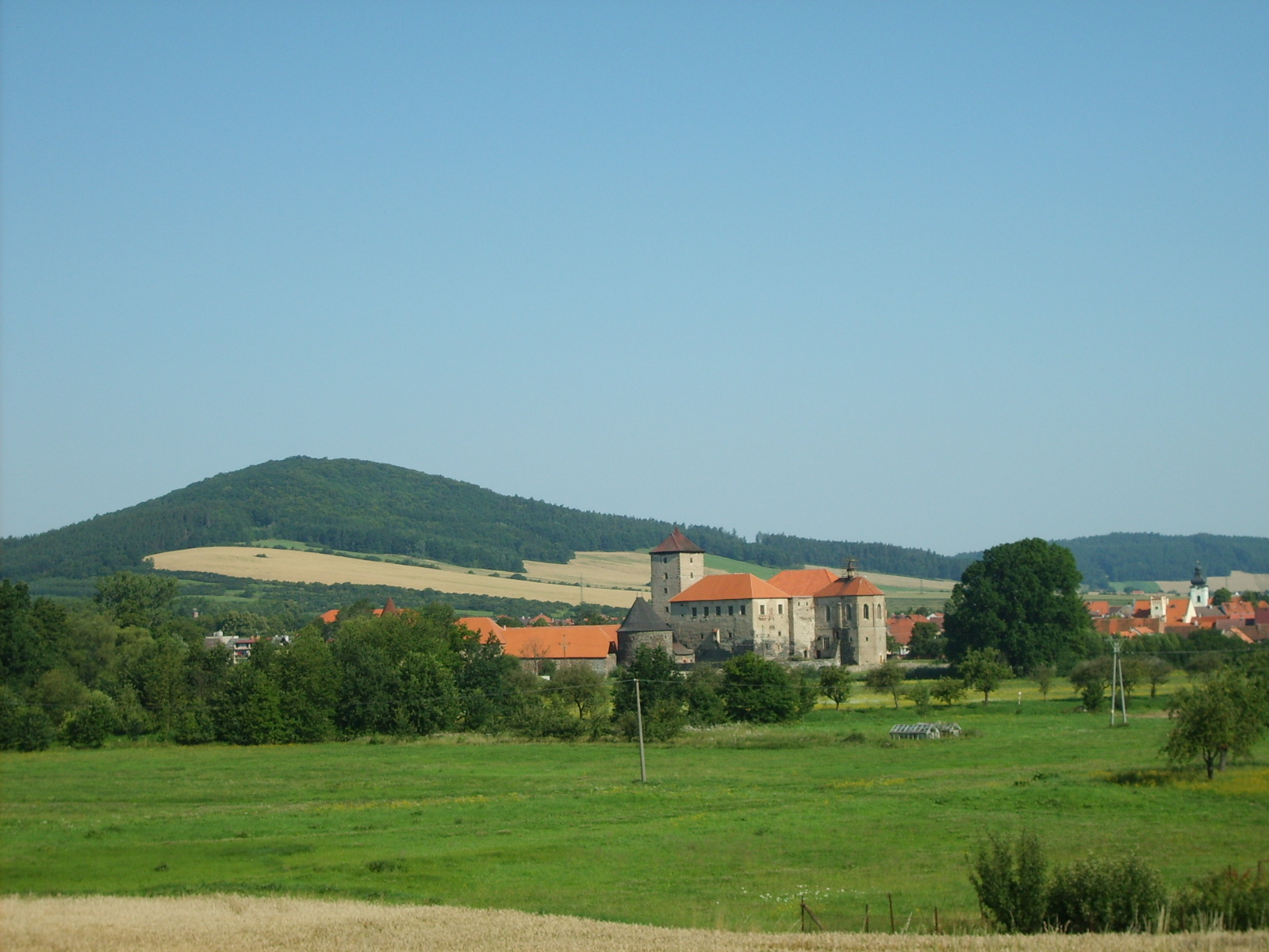 Town and castle of Švihov.